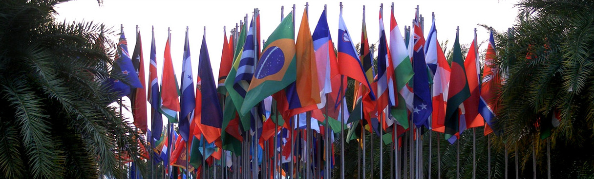 Flags, in Conference of the Parties (COP-11) to the Convention on Biological Diversity Hyderabad India